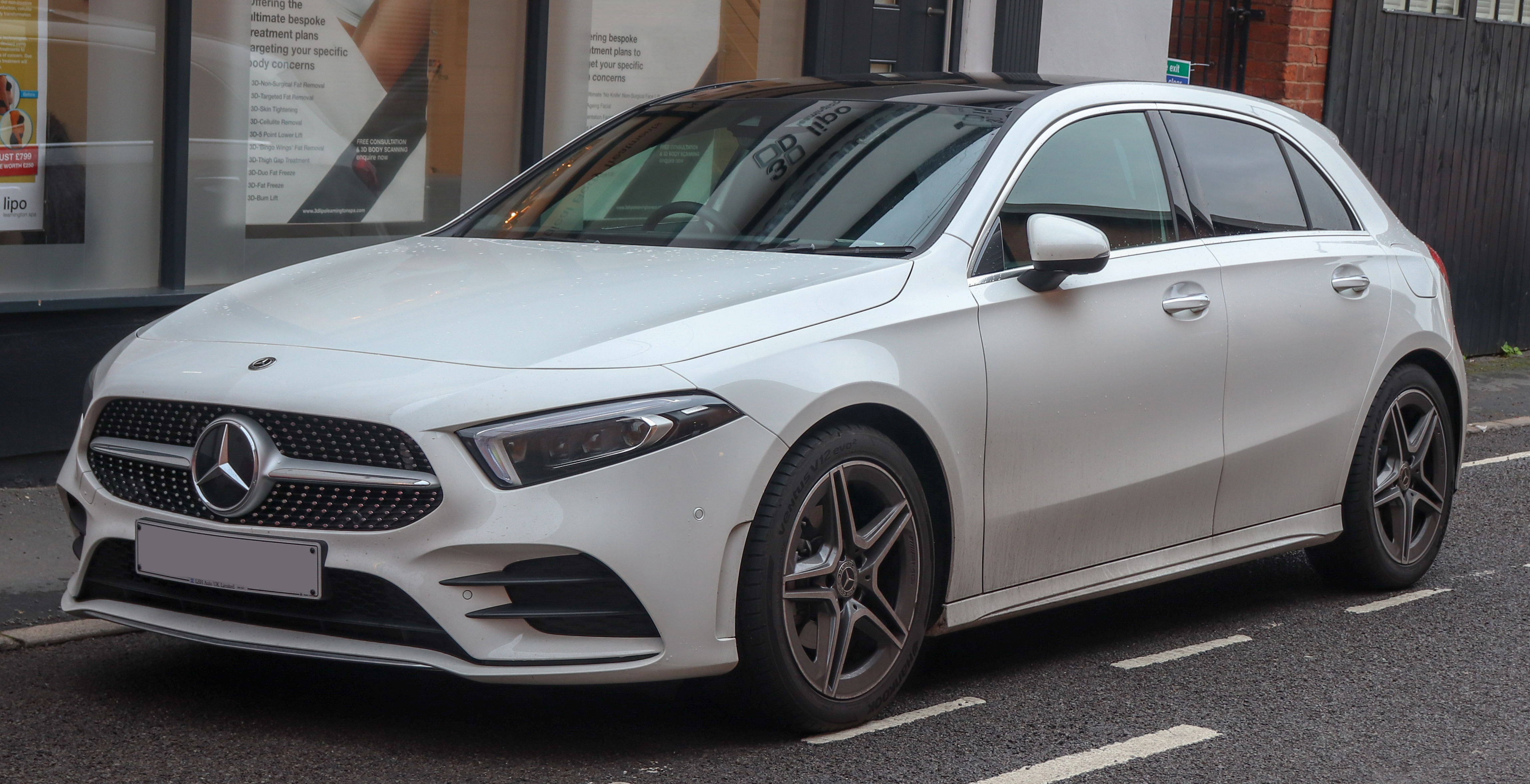 2018 Mercedes-Benz A200 AMG Line Premium+ 1.3 Front Taken in Leamington Spa